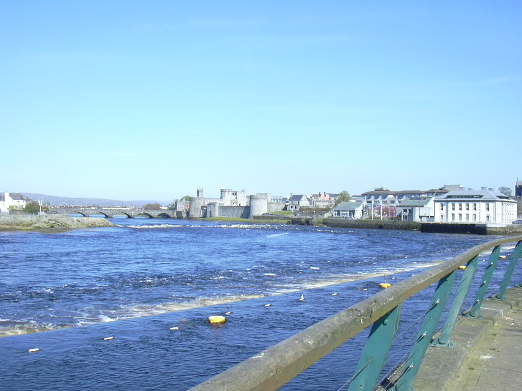 The Shannon at Limerick. Photo taken by myself (on Friday 6 April 2007) and I hereby release it into the public domain.